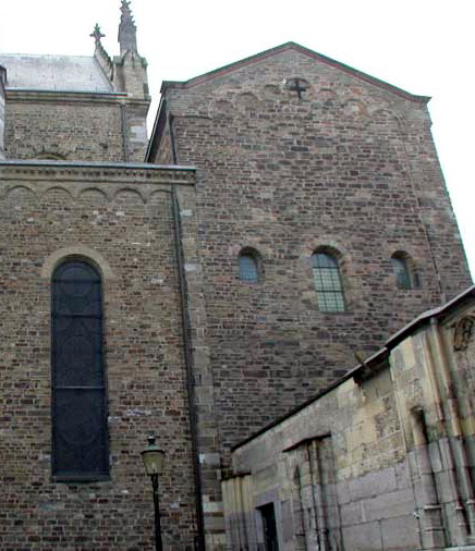 'Double chapel' (treasury). Basilica of Saint Servatius, Maastricht, the Netherlands.